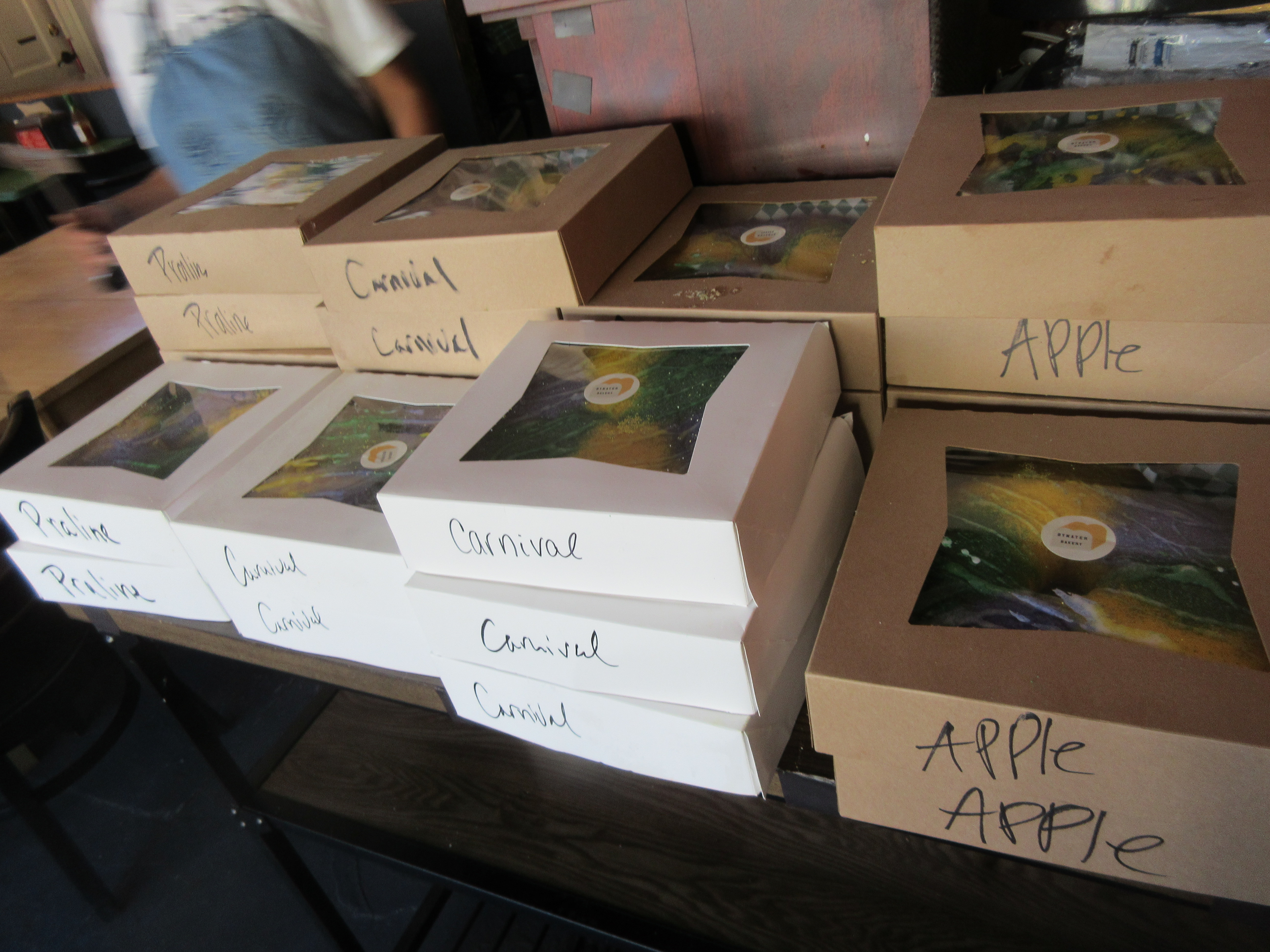 Bywater Bakery, New Orleans. Boxed king cakes.